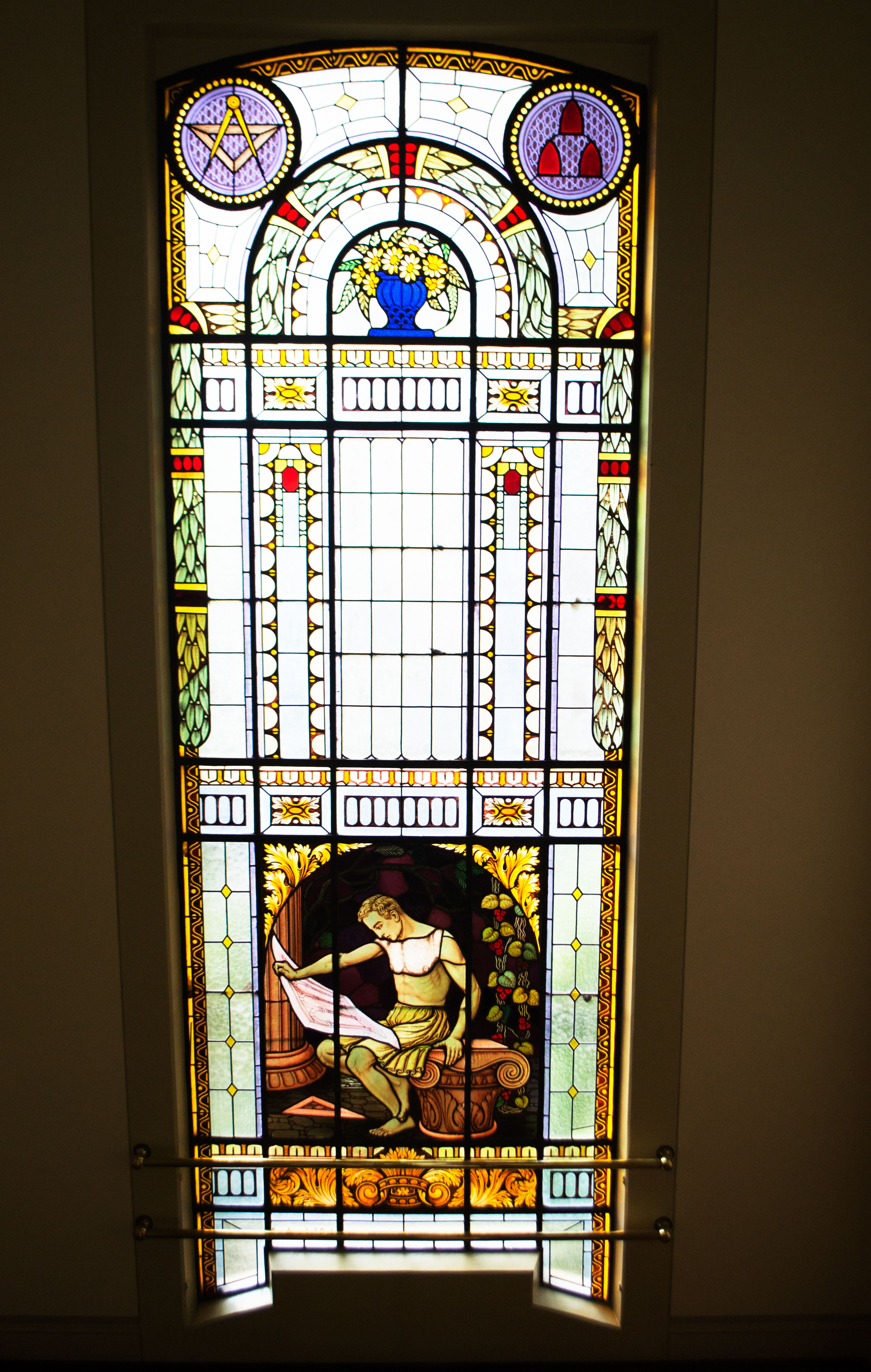 Vitral leste do Edifício Ramos de Azevedo, antiga Escola Politécnica, atual Arquivo Histórico de São Paulo, São Paulo (SP), Brasil